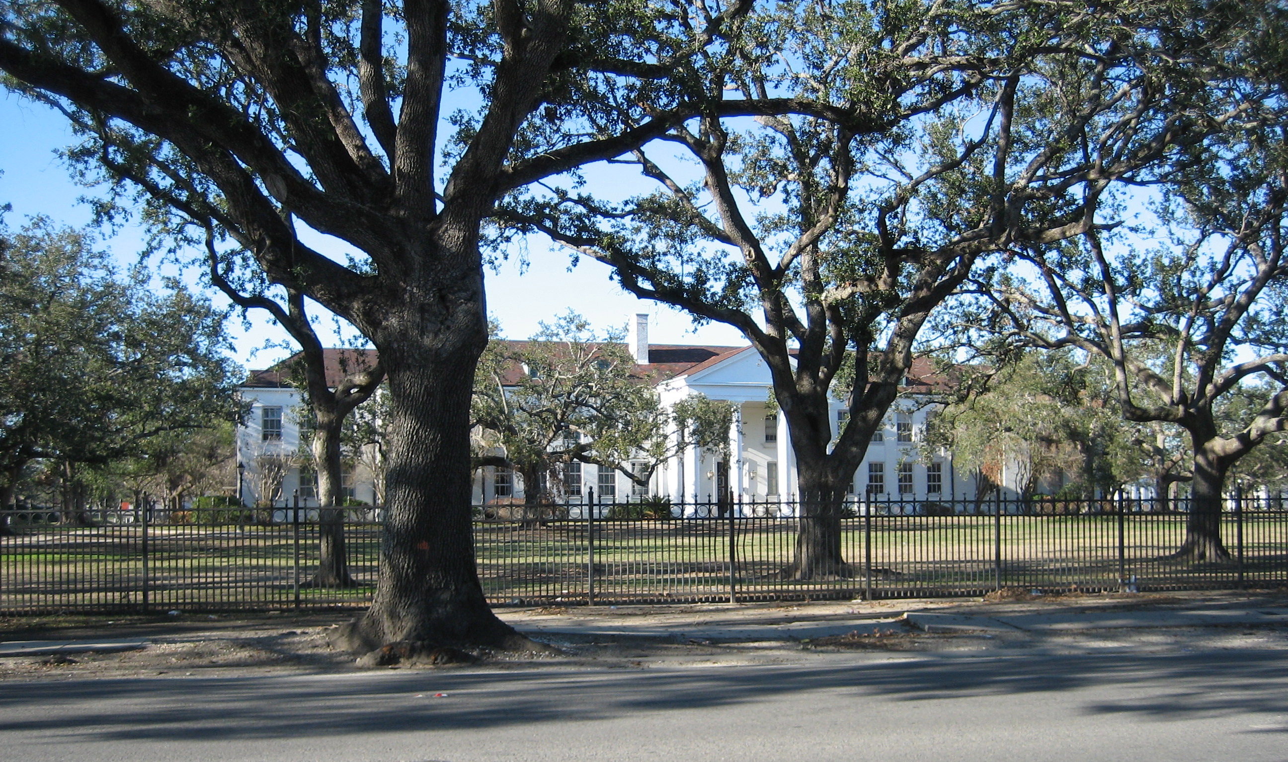 Part of Dillard University from Gentilly Boulevard, New Orleans. Photographed by Infrogmation of New Orleans, January 2006; at the time still closed due to the flooding from the levee failures during Hurricane Katrina.